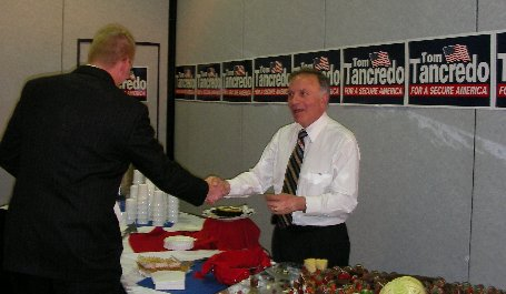 U.S. Rep. Tom Tancredo, R-Colo., at the Republican Party of Iowa's Lincoln Day Dinner -- April 14, 2007 in Des Moines. Read coverage